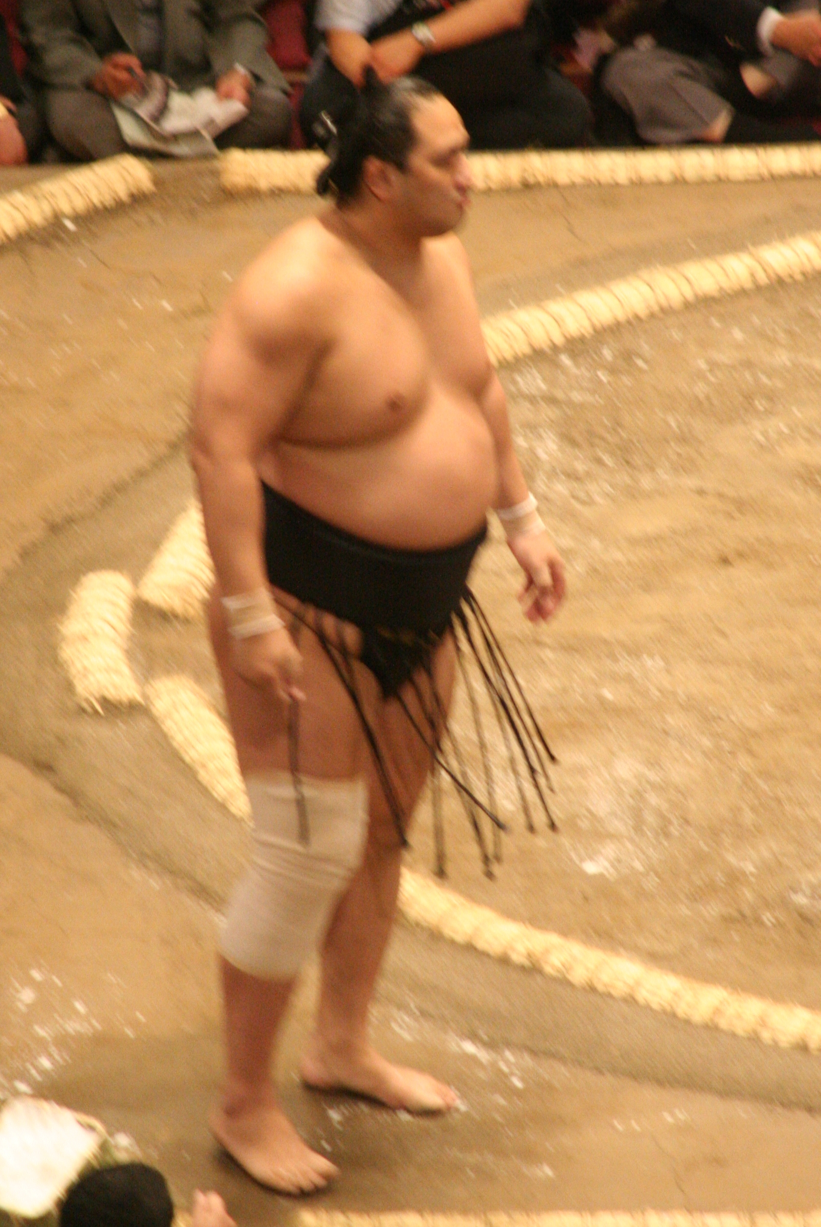 First day of 2009 May Sumo Tournament in Tokyo, Japan - Aminishiki